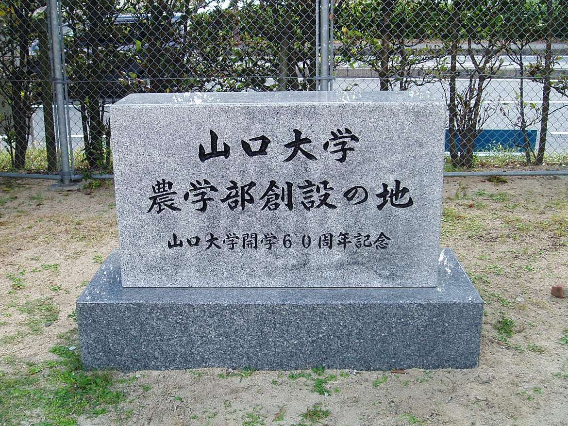 Memorial of the place where the Faculty of Agriculture, Yamaguchi University, was inaugurated (May 1949). Located in Shimonoseki, Yamaguchi, Japan.